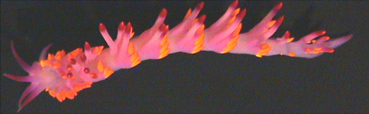 Photo of Trinchesia sibogae Bergh, 1905 (Cladobranchia) – Queensland, Australia.